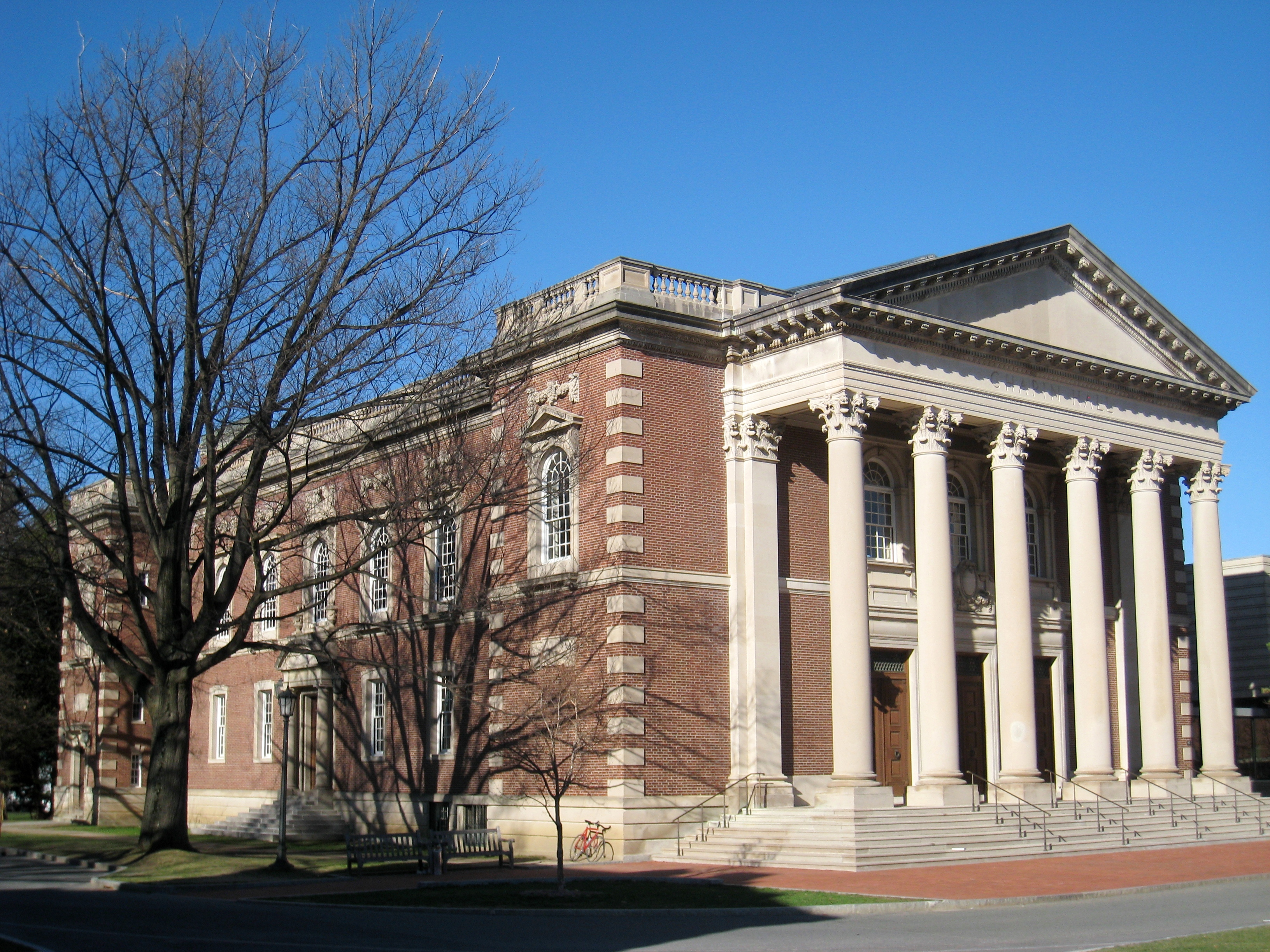 Williams College - Chapin Hall. Williamstown, Massachusetts, USA. Architects (Ralph Adams) Cram, Goodhue and Ferguson, according to Williams College website [1].